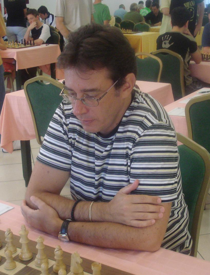 GM Mihail Marin Romania, XXVI Open Internacional d'Andorra.